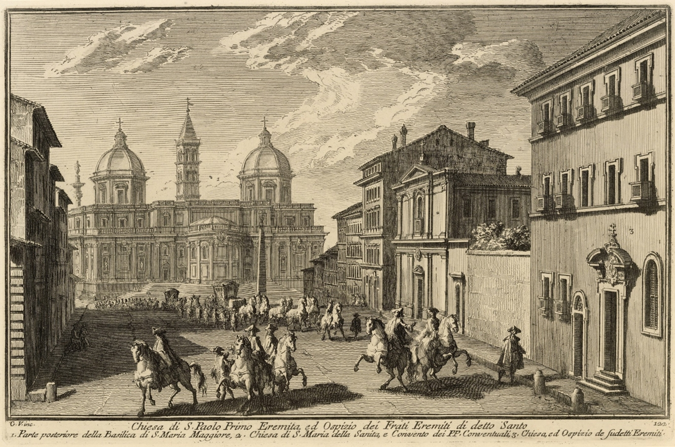 1) Rear side of S. Maria Maggiore; 2) S. Maria della Sanità; 3) S. Paolo Primo Eremita.